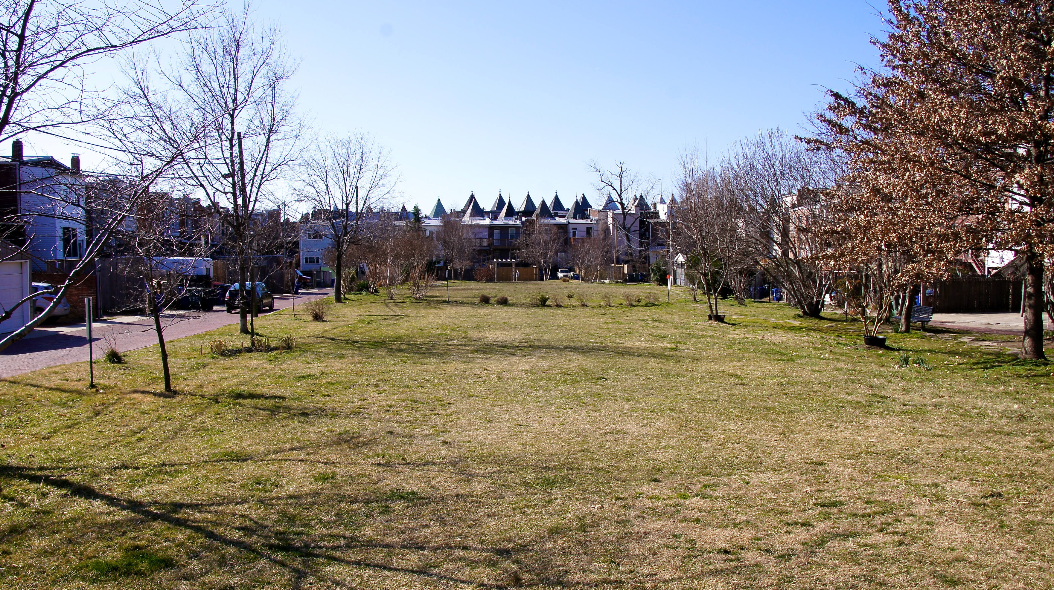 "Crispus Attucks Park is NOT a DC Public Park. It is maintained and supported entirely through private donations and volunteer labor. The park is owned by the nonprofit Crispus Attucks Development Corporation (CADC) on behalf of the surrounding homes. The District government has made the land free from real estate taxes in return for its use as a resource for the local community." See